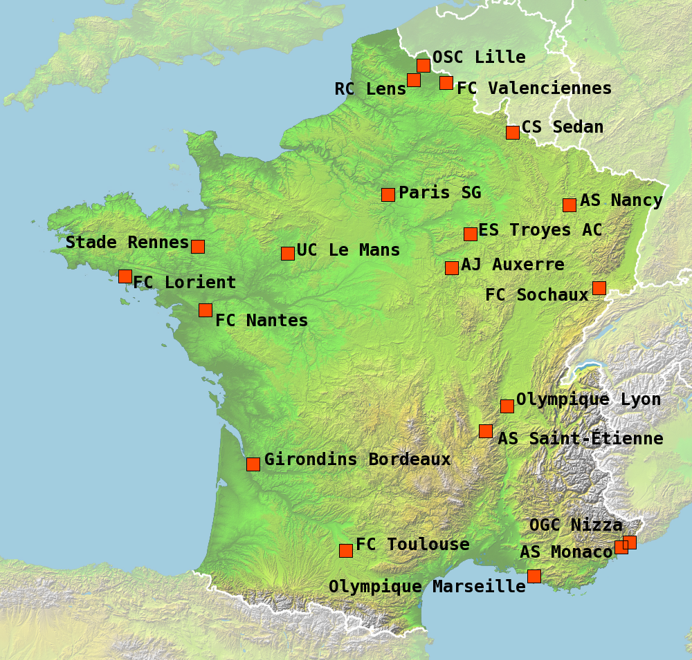 Map of France with locations of Ligue 1-F.C.s 2006/07